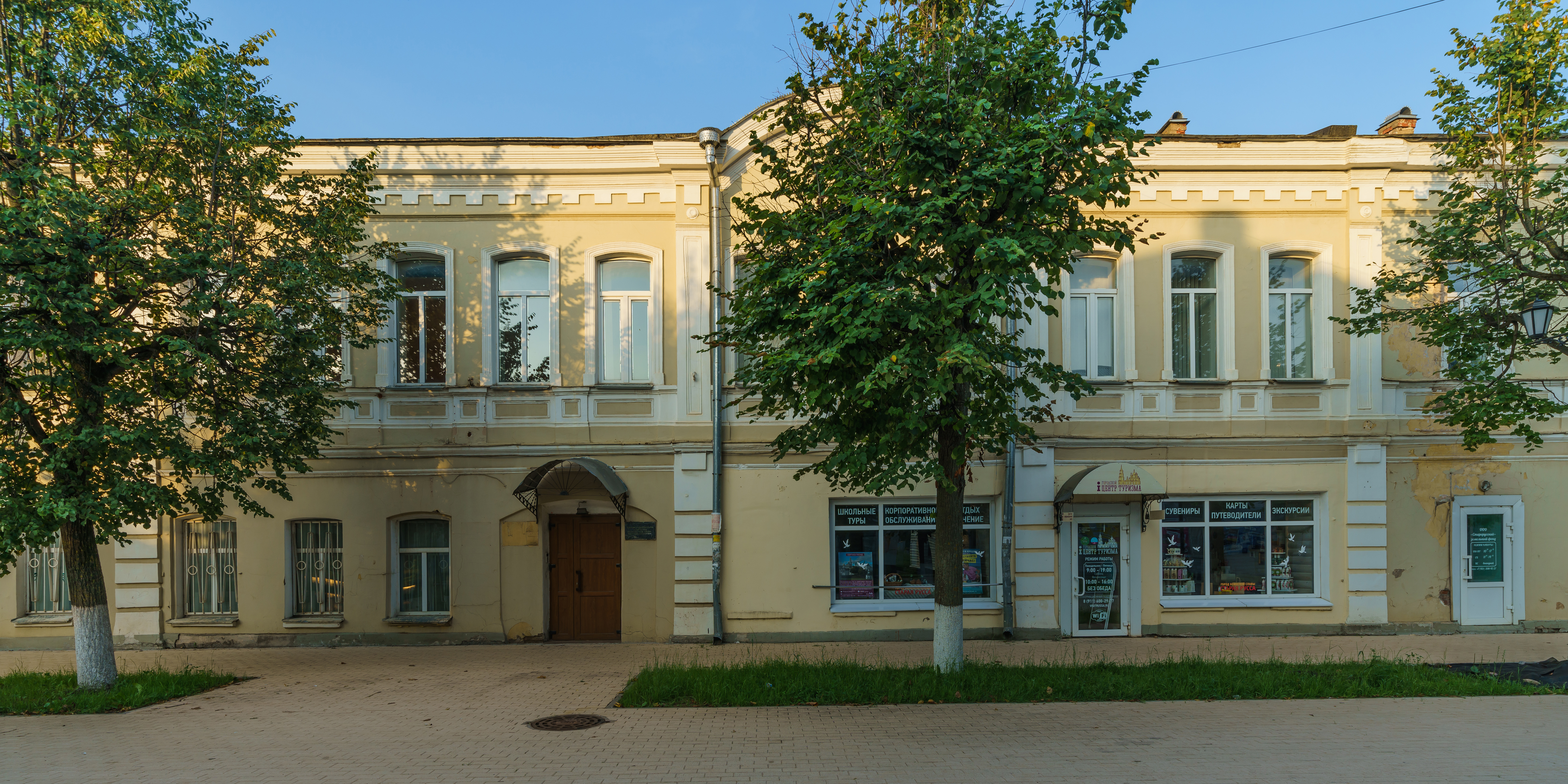 Building at Voskresenskaya Street, 8 in Staraya Russa, Novgorod Oblast, Russia